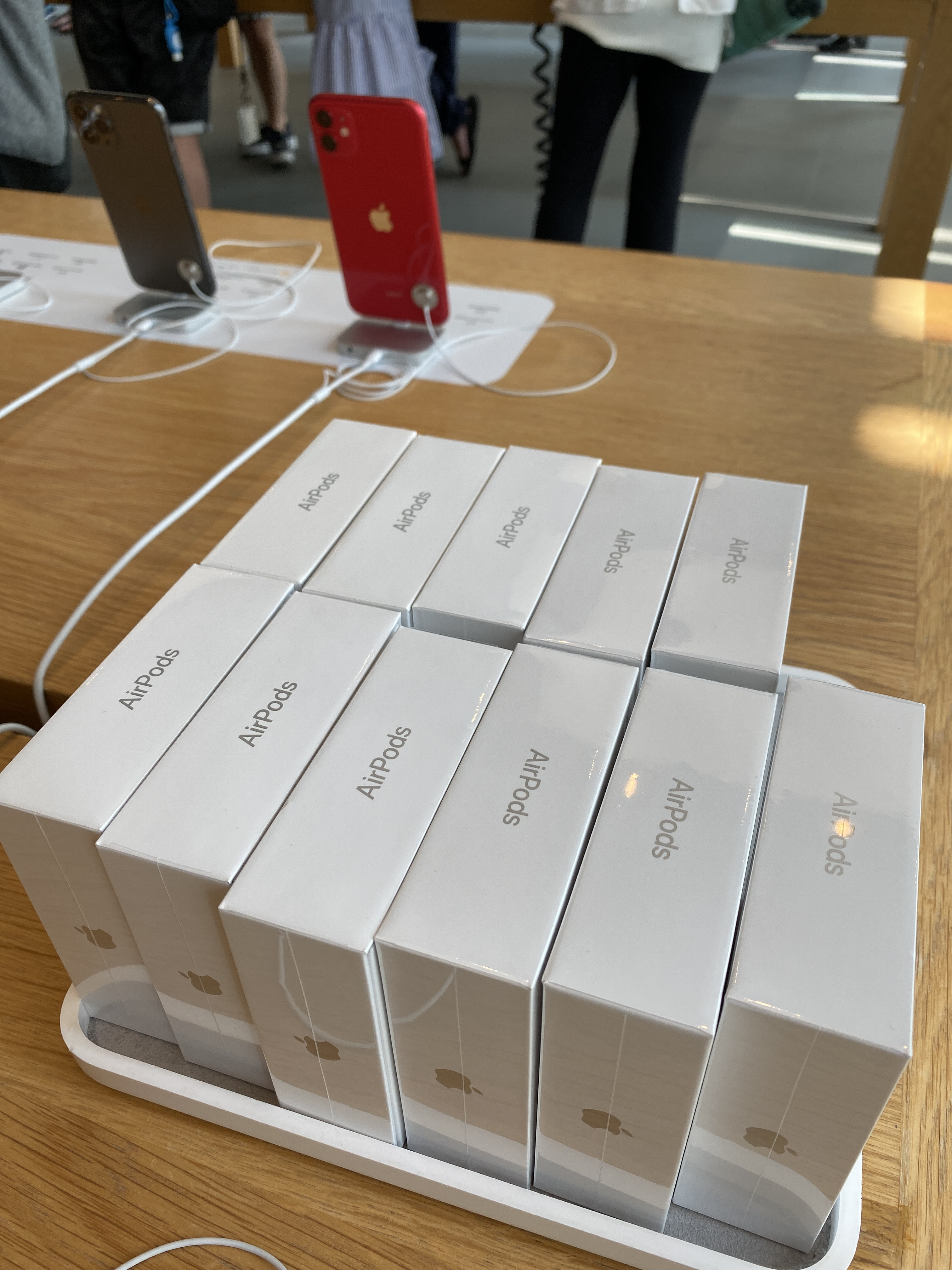 HK Central Apple Store IFC mall shop October 2019